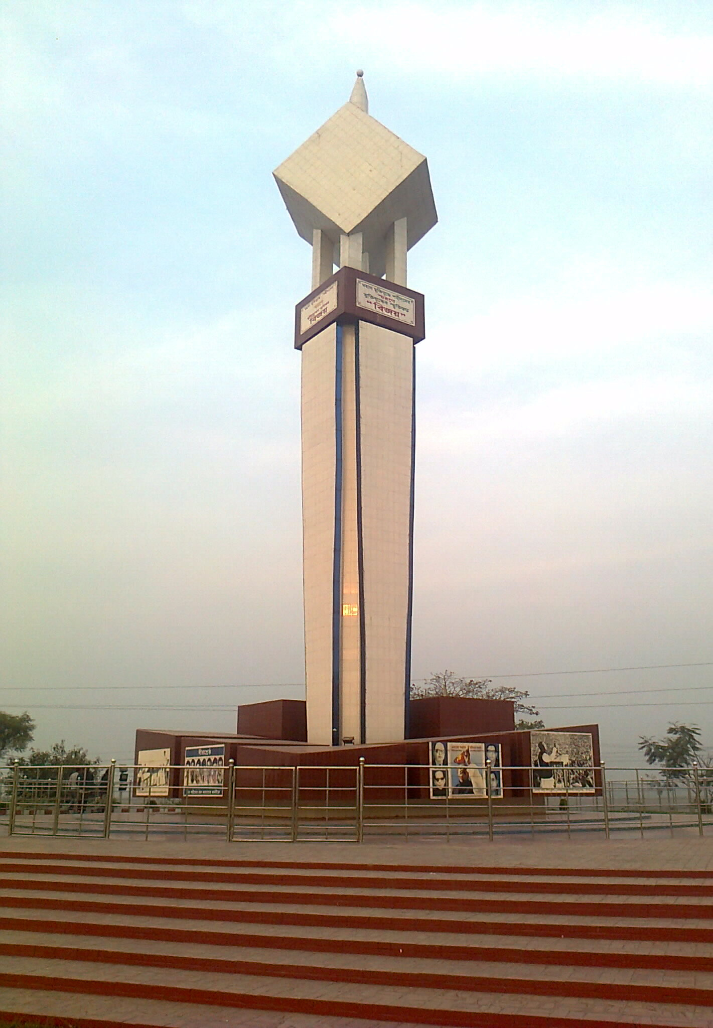 This monument is placed in the north-west part of Naogaon. It is built in the memory of the liberation war of Bangladesh. It is 71ft high, which reminds us of 1971.